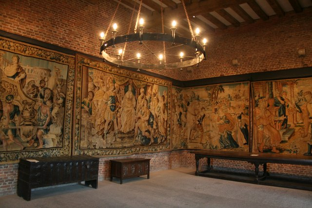 Tapestry Room Chamber in Tattershall Castle keep, furnished and decorated reconstruction of 16th century life there